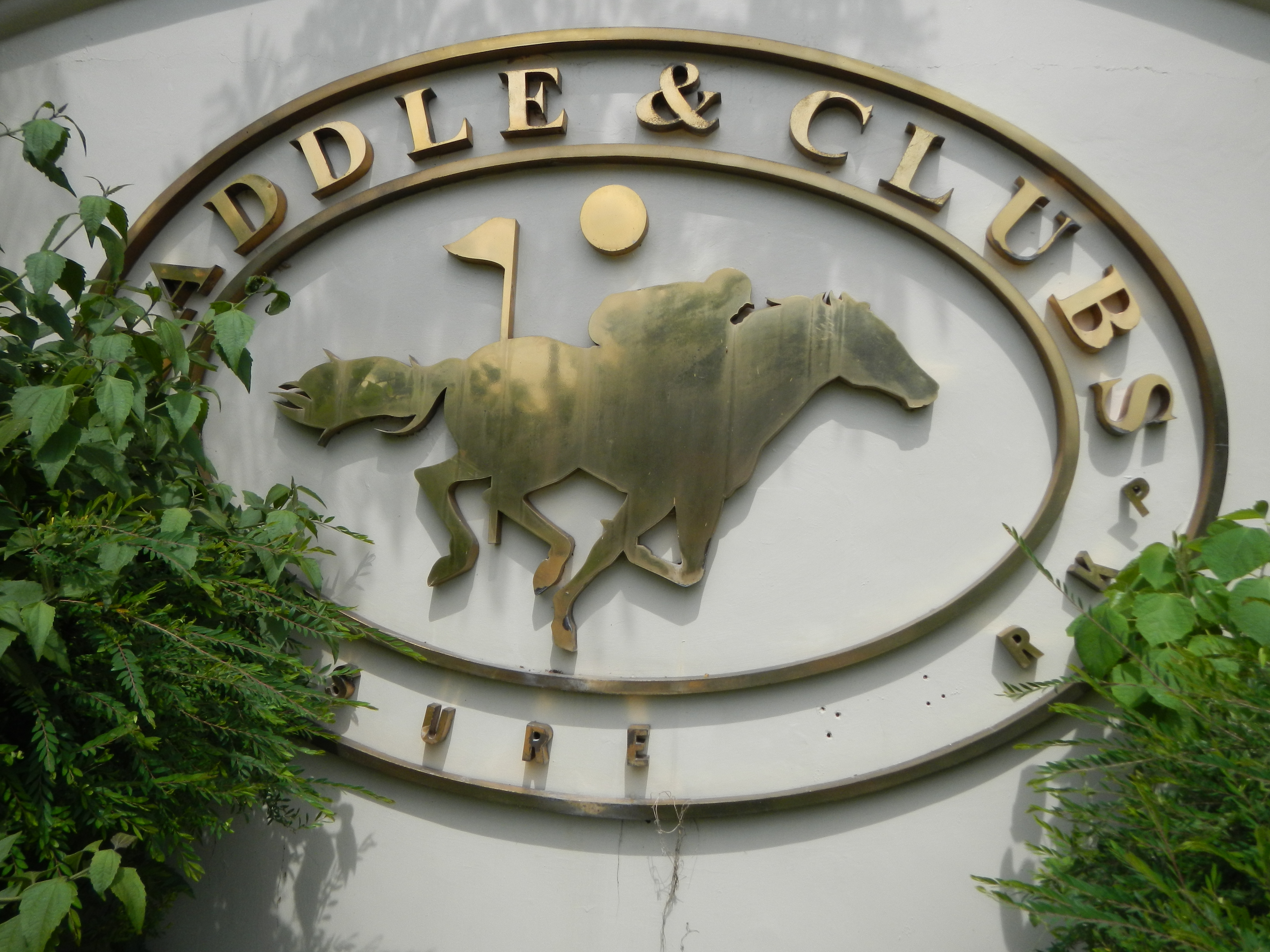 Scenic Barangay Sabang, Naic, Cavite[1] & adjoining Boundary Barangay Tanauan, Tanza,[2] Cavite -- along Governor's Drive [3] going to the --- Philippine Racing Club, Incorporated's "Saddle & Clubs Leisure Park" in Naic, the new Santa Ana ParkSanta Ana Park (since 1937) 65-hectare racecourse 40th PCSO Presidential Gold Cup --- Naic, Cavite[4] is a first class municipality in the province of Cavite, [5] Philippines. It is just 47 km away from the city of Manila. According to the 2010 census, it has a population of 88,144 people in a land area of 76.24 square kilometers. [6] Coordinates: 14°17'39"N 120°47'57"E [7]G eographical location: Cavite, Region 4, Philippines, Asia geographical coordinates: 14° 19' 13" North, 120° 46' 3" East This place is situated in Cavite, Region 4, Philippines, its geographical coordinates are 14° 19' 13" North, 120° 46' 3" East and its original name (with diacritics) is Naic. [8] [9]